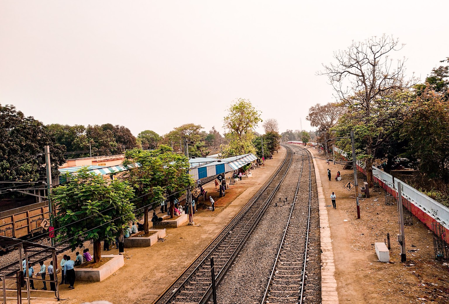 This is the Picture of Gangadharpur railway station